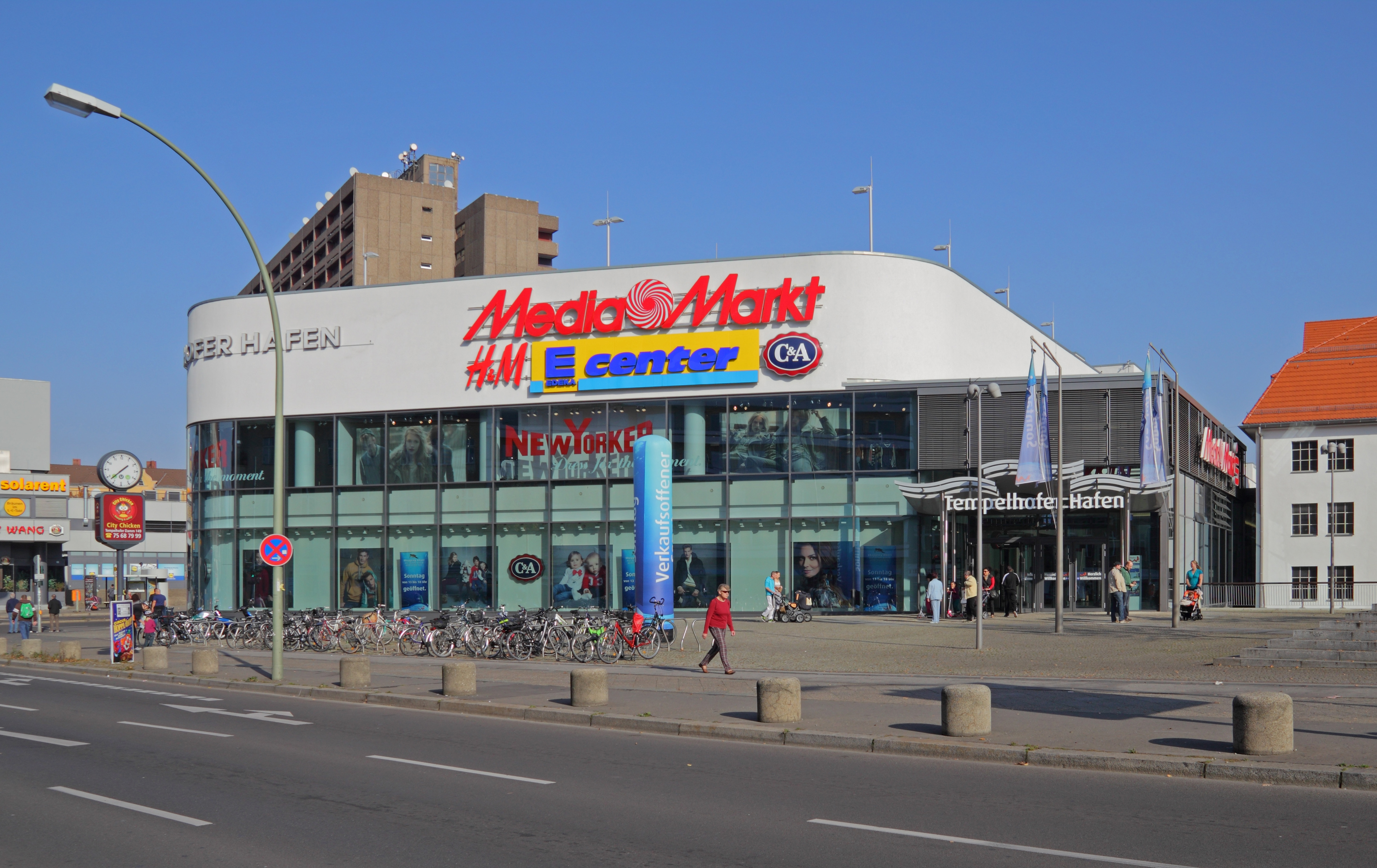 Berlin-Tempelhof. Tempelhof Harbour on the Teltow Canal.